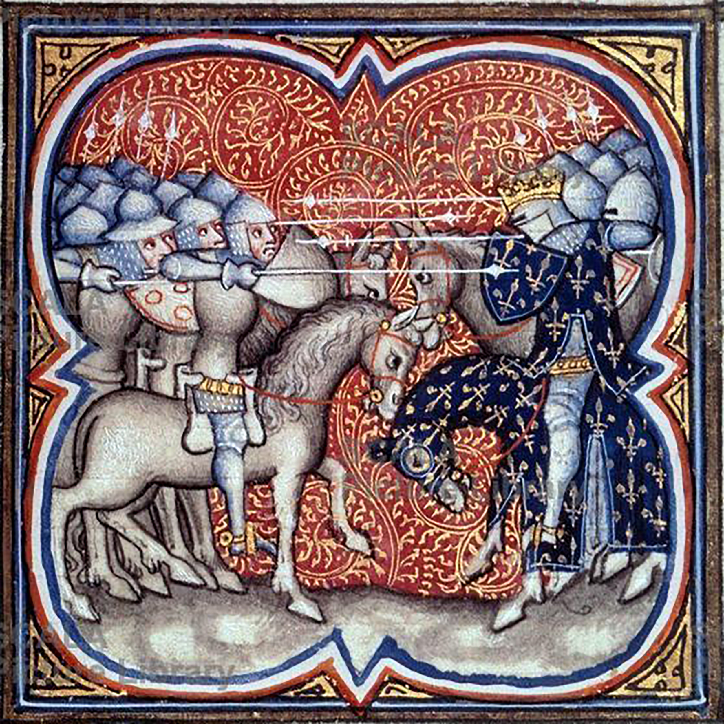 Charles Martel fighting the Saracens at Tours-Poitiers in 732, Great Chronicles of France